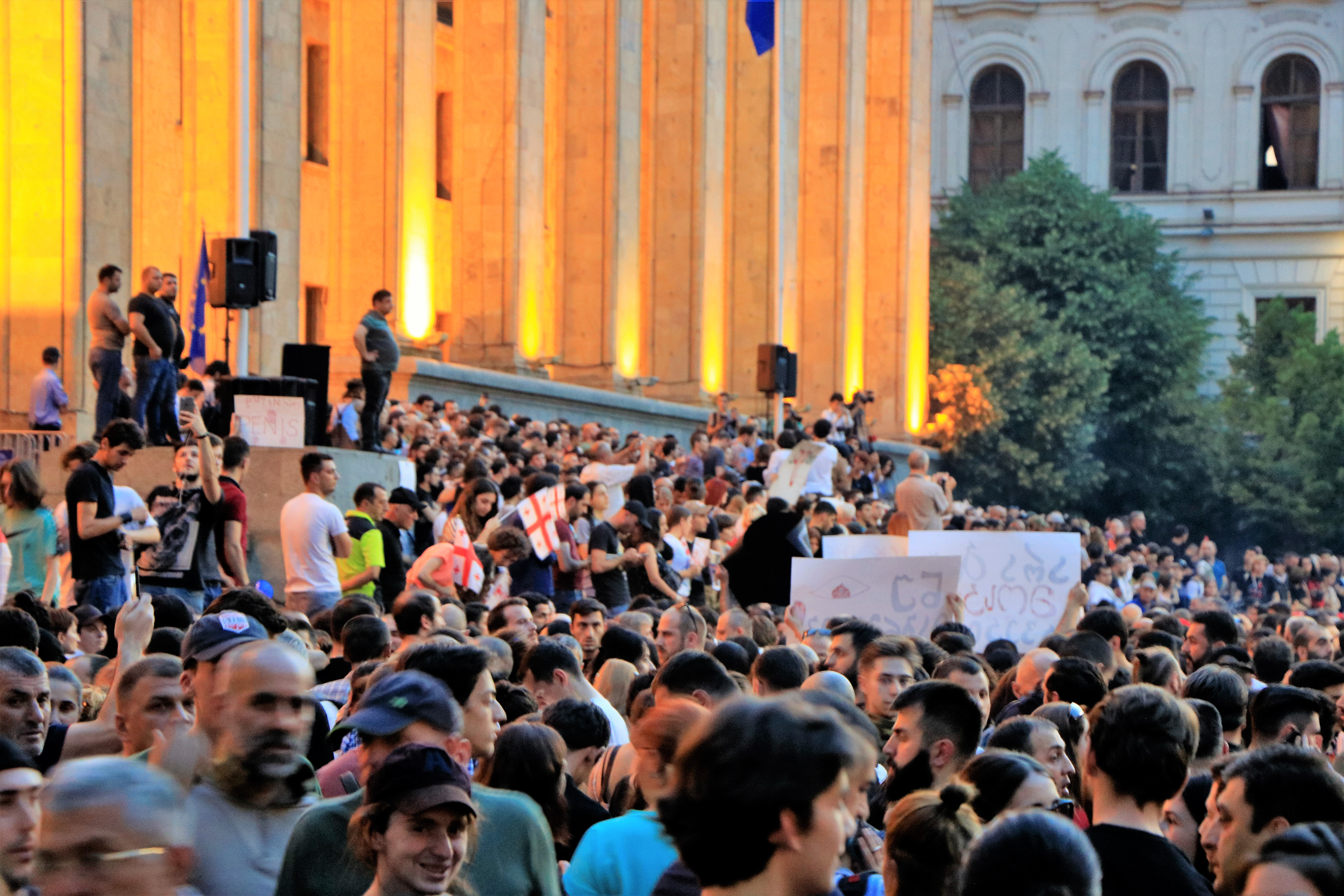 Gavrilov's Night Day 2 - sideview demands